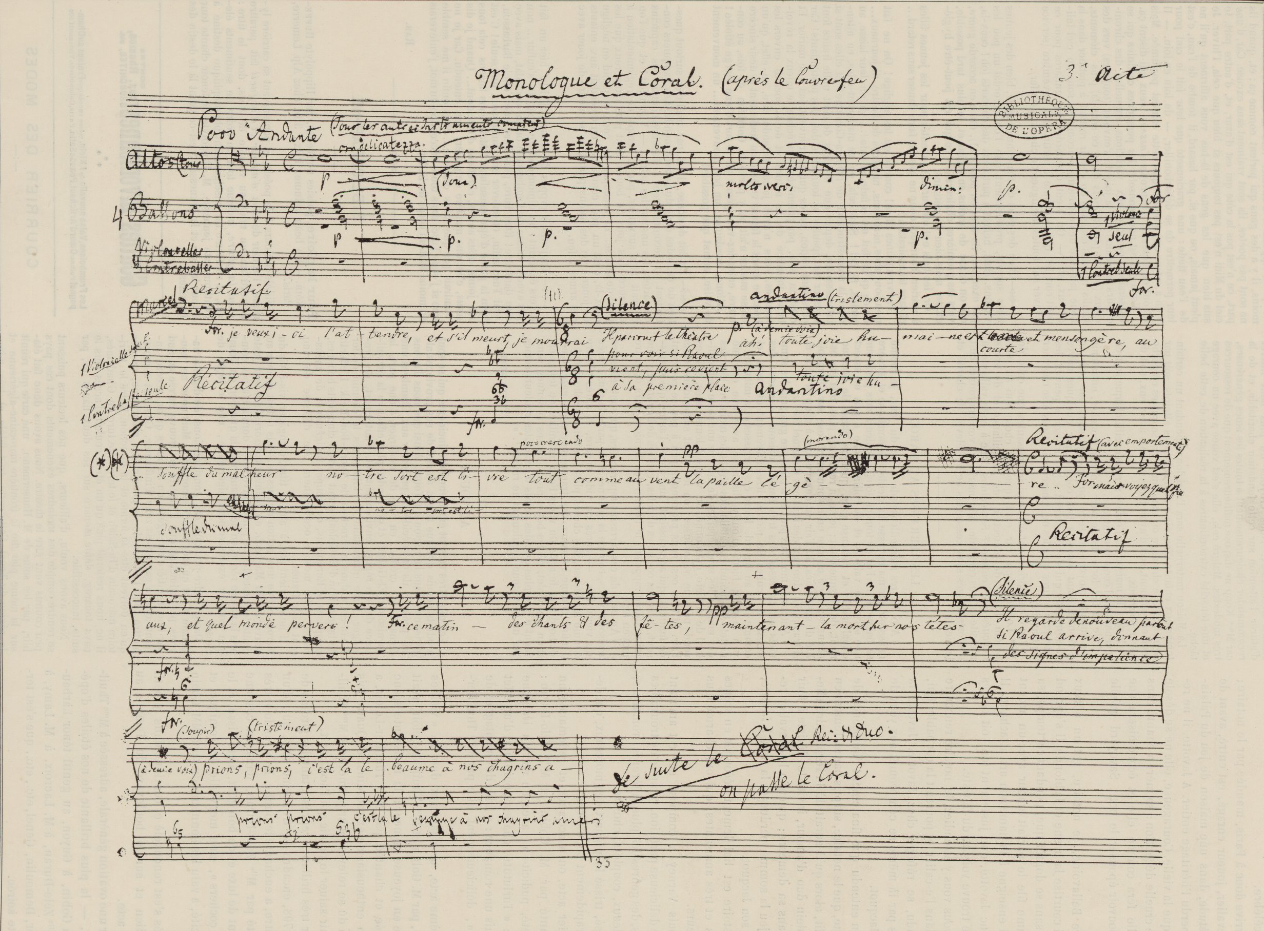 Aria comosed by Meyerbeer for Les Huguenots but ultimately not used